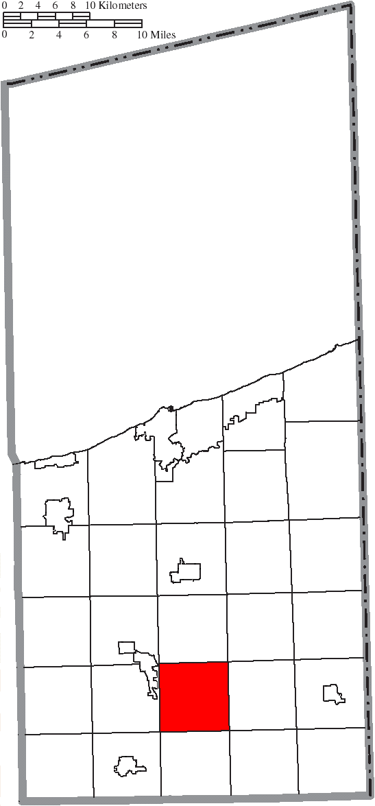 Map of the municipal and township boundaries of Ashtabula County, Ohio, United States, as of the 2000 census, with the location of New Lyme Township highlighted. Township borders are shown only in unincorporated areas in order to differentiate incorporated and unincorporated areas more clearly.